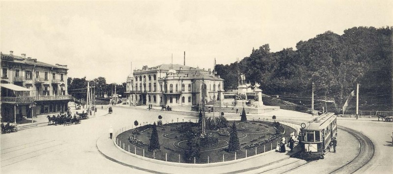 An old photo of European square in Kyiv